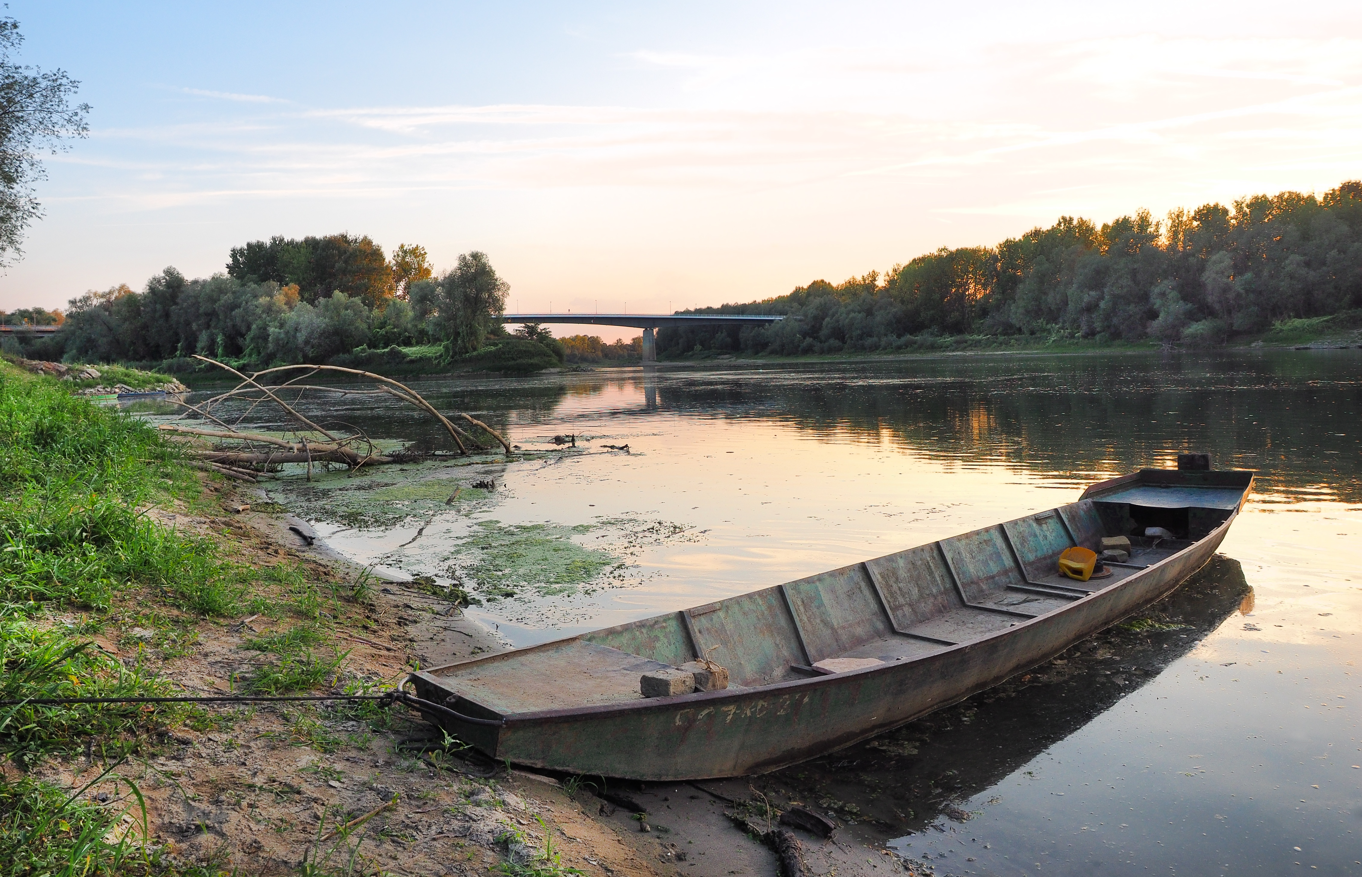 Boat on the mouth of river Una to river Sava, Donja Gradina, Republika Srpska. Српски (ћирилица): Чамац на ушћу реке Уне у Саву (Доња Градина, Република Српска) Парк природе Ријека Уна, Костајница, К.Дубица, Нови Град ID добра: PPP035 This image was uploaded as part of Trace of Soul 2017. This photograph was taken with an Olympus E-M1